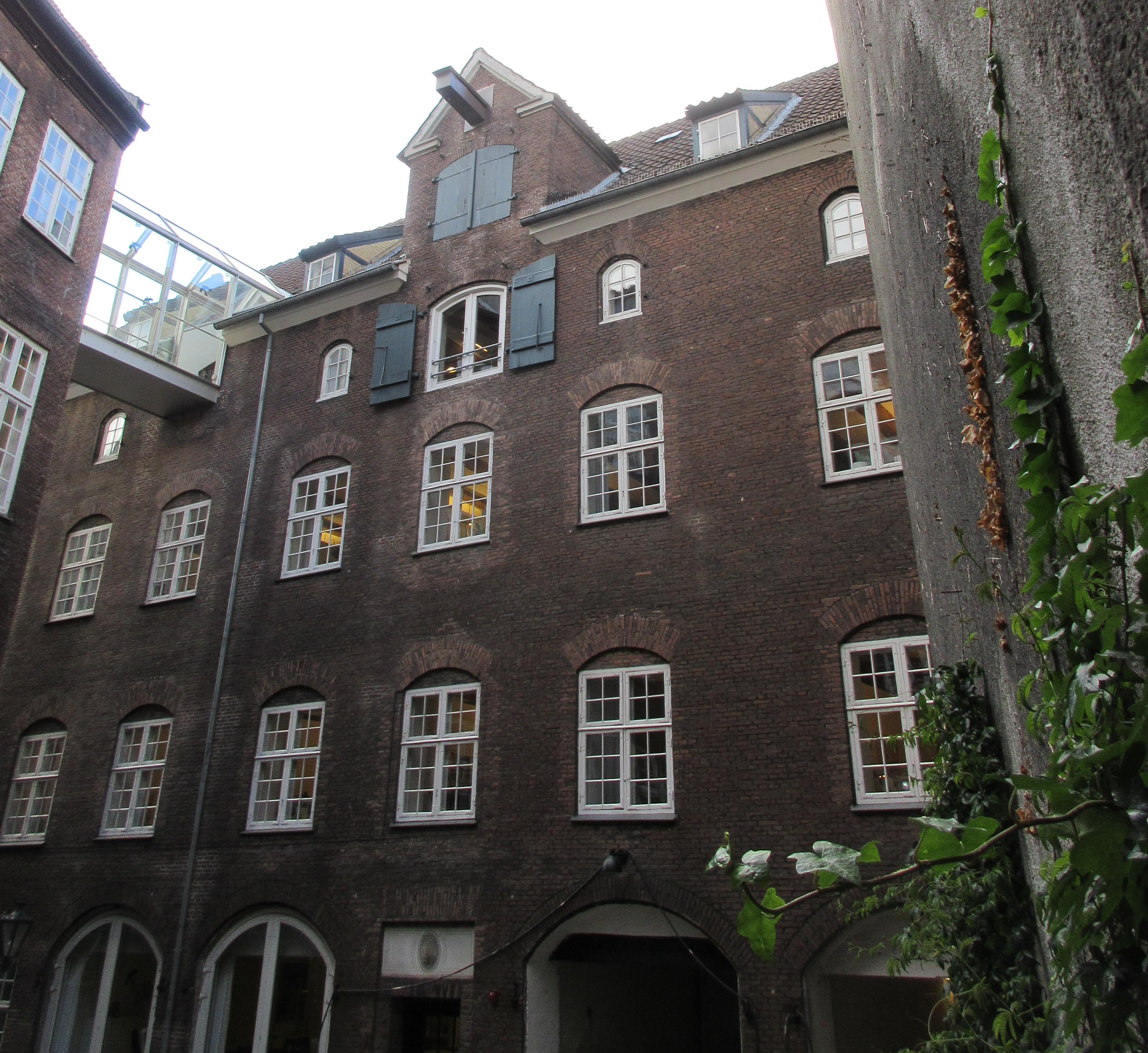 The rear wing of Gammeltorv 22 in Copenhagen, Denmark